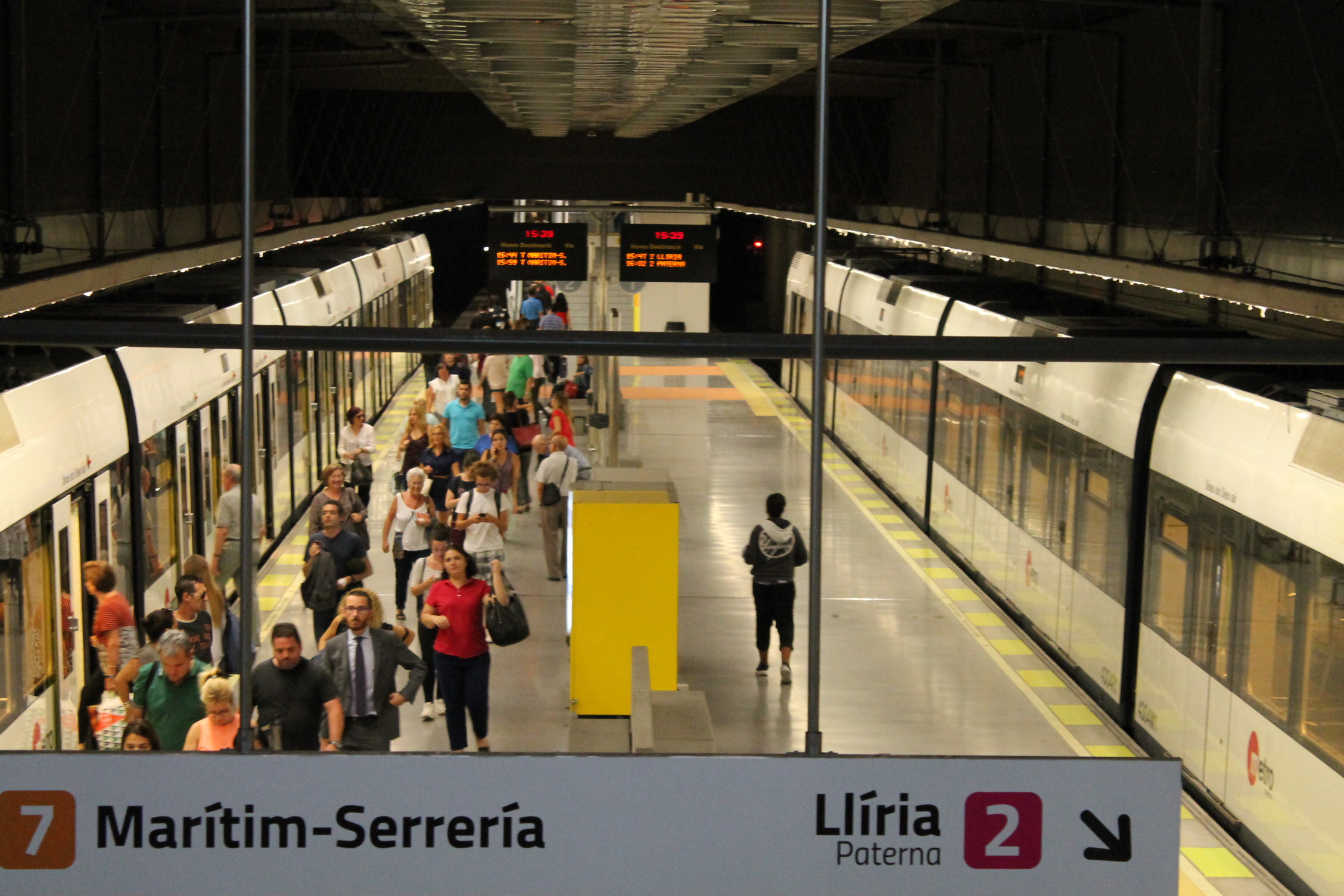 Platform of the Torrent Avinguda station of Metrovalencia.